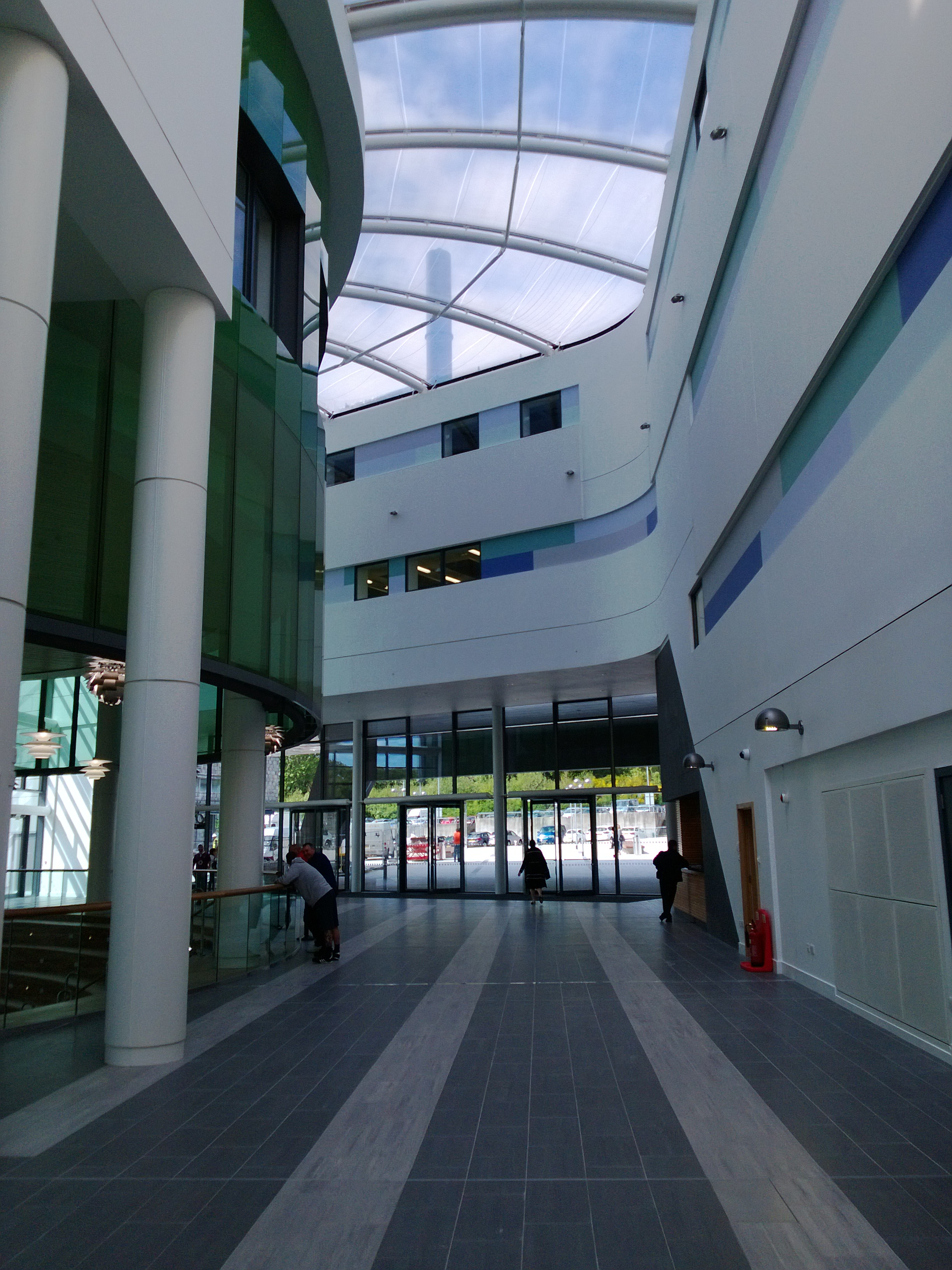 Atrium of Riverside East building at The Robert Gordon University, Aberdeen, looking toward main entrance onto plaza. Base of green library tower is at left with building's reception desk on right.